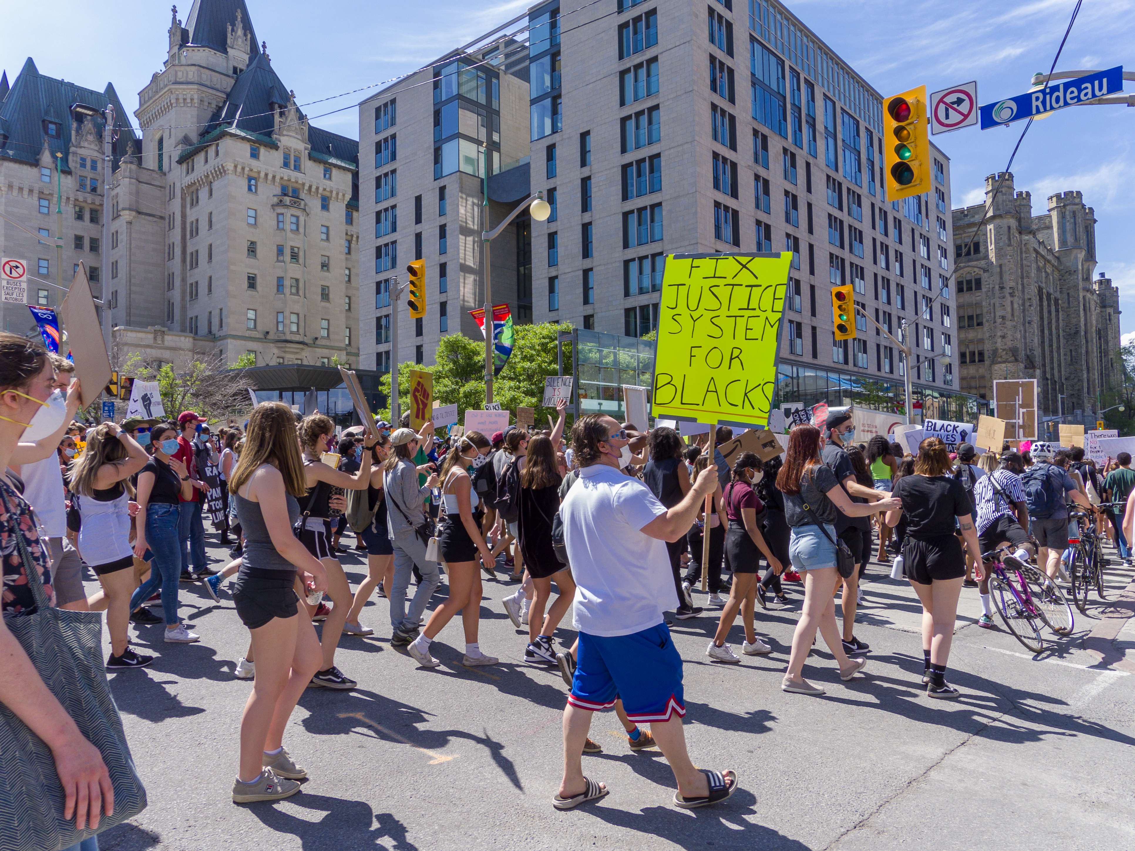 Black Lives Matter protest in Ottawa on June 5, 2020